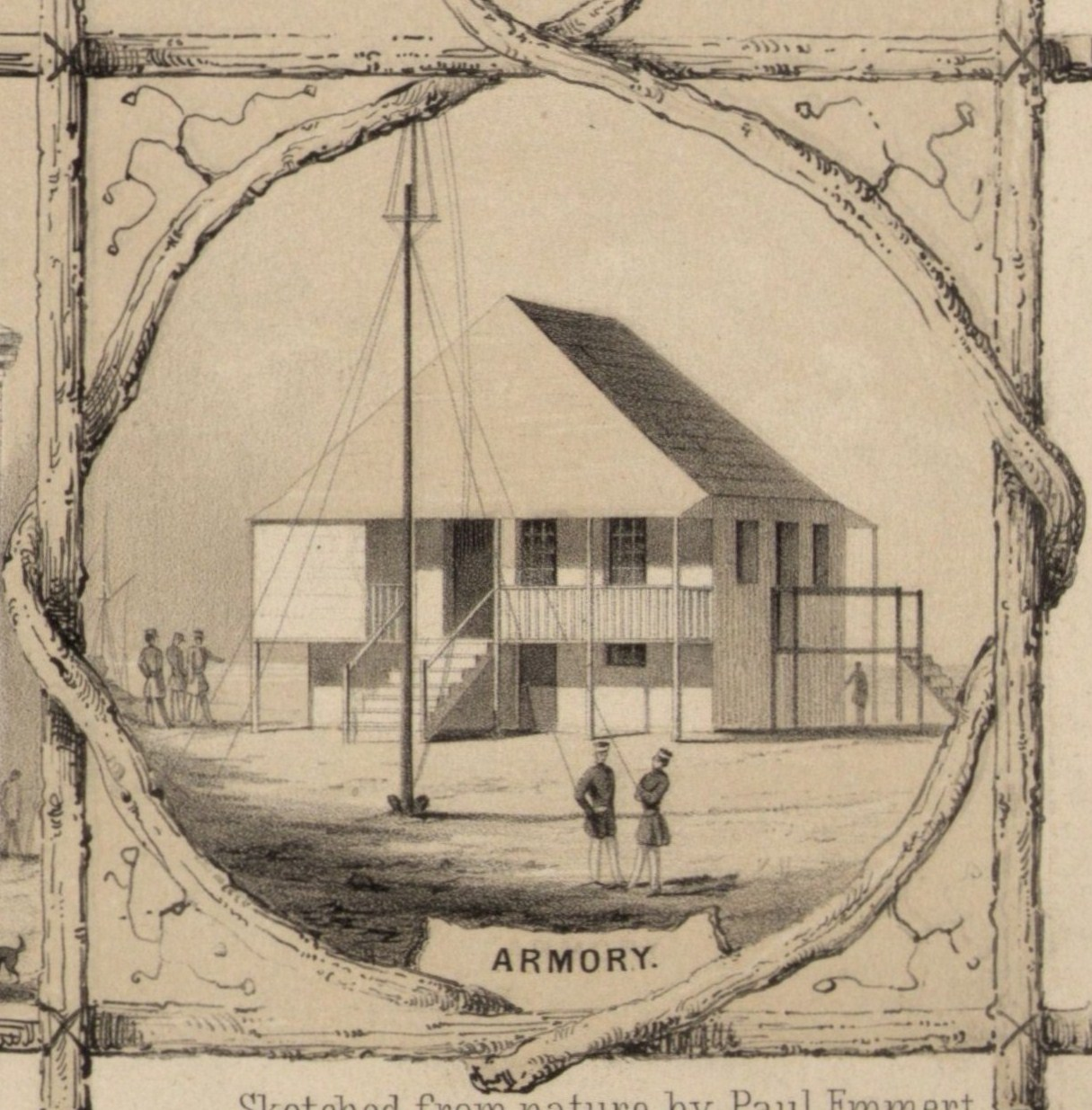 Honolulu Armory, better known as Mauna Kilika, served as the headquarter of the Royal Guards of Hawaii and as the government building and meeting place for the Legislature of Hawaii from 1845 to 1852.